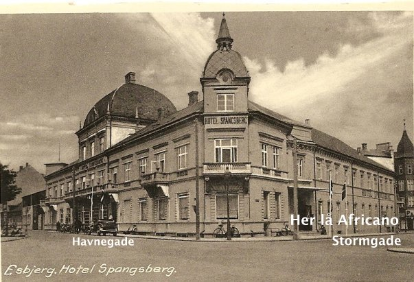 Foto of the Hotel Sangsberg in Esbjerg Denmark, where the music place Africano were from 1958 to 1970